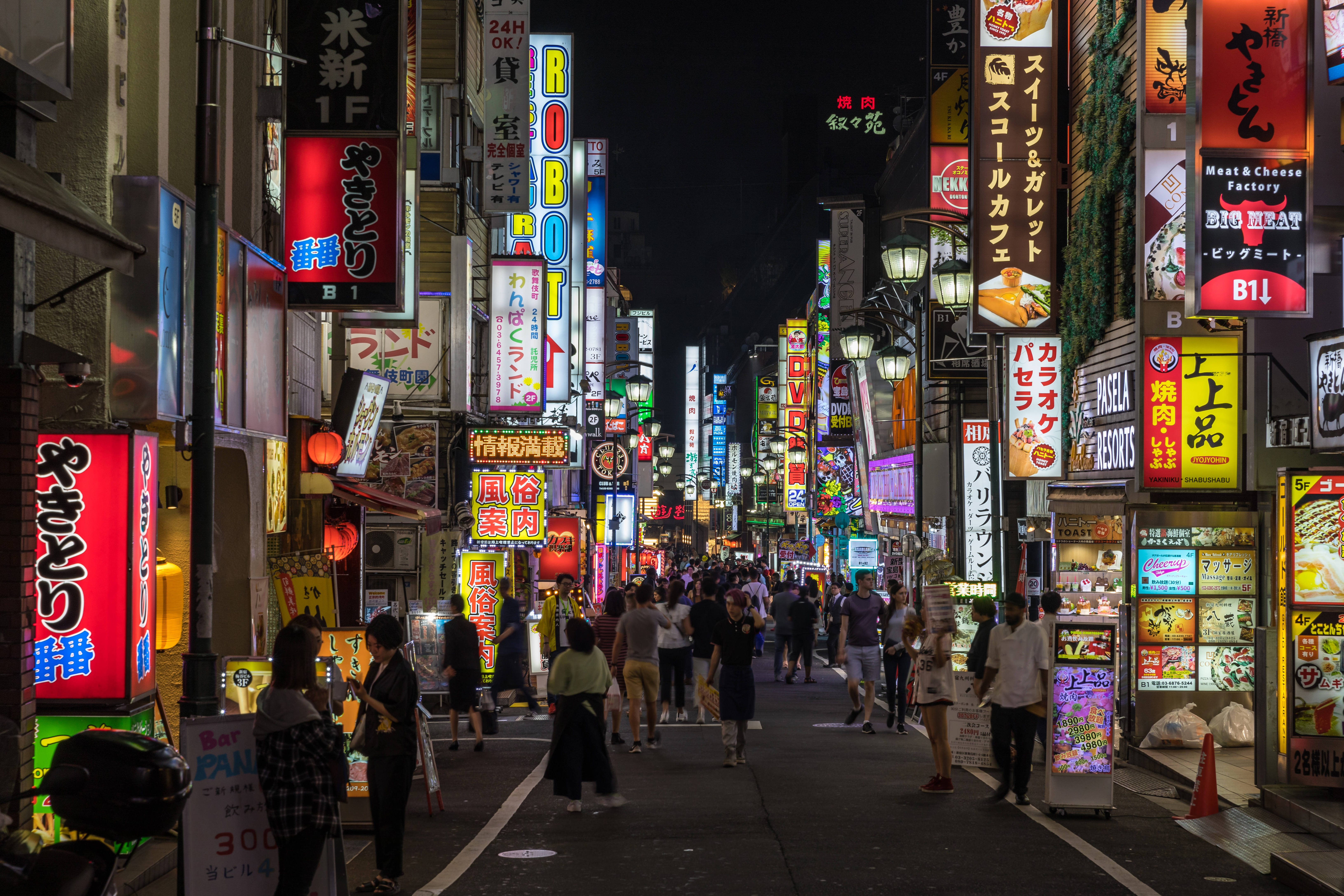 Colorful neon street signs in Kabukichō, Shinjuku, Tokyo, Japan.